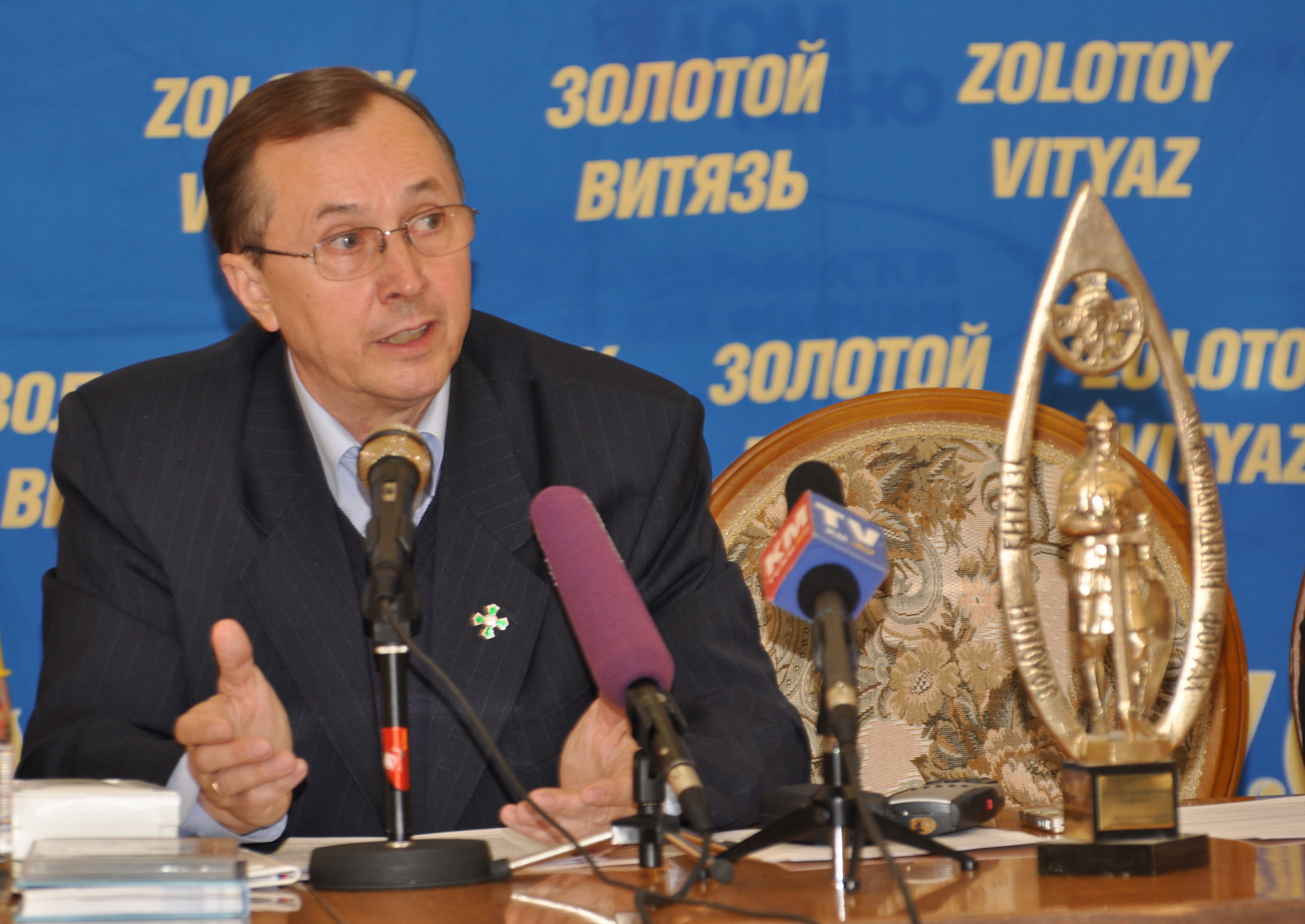 Russian actor Nikolai Burlyayev